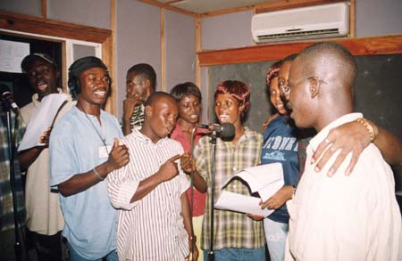 The cast of Atunda Ayenda a Sierra Leonean radio soap opera, showing character actors including Alhaji Sesay, third from the left, Winstinia Johnson, fifth from left, Patricia Fallah Hollist, centre by mike.